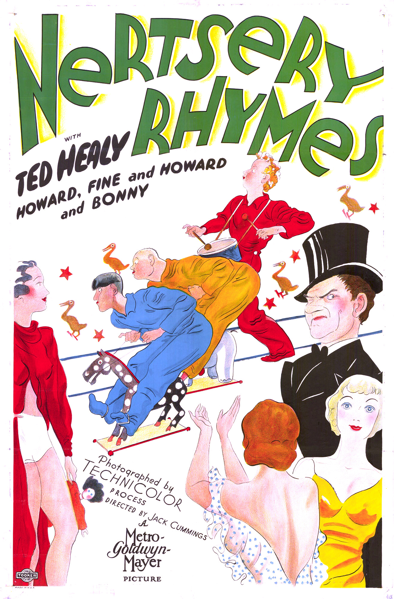 Poster for the 1933 film Nurtsery Rhymes. The item has no copyright markings on it as can be seen in the links above. At bottom left is Made in USA and the logo of the Tooker Litho Company, NY--they printed the poster.